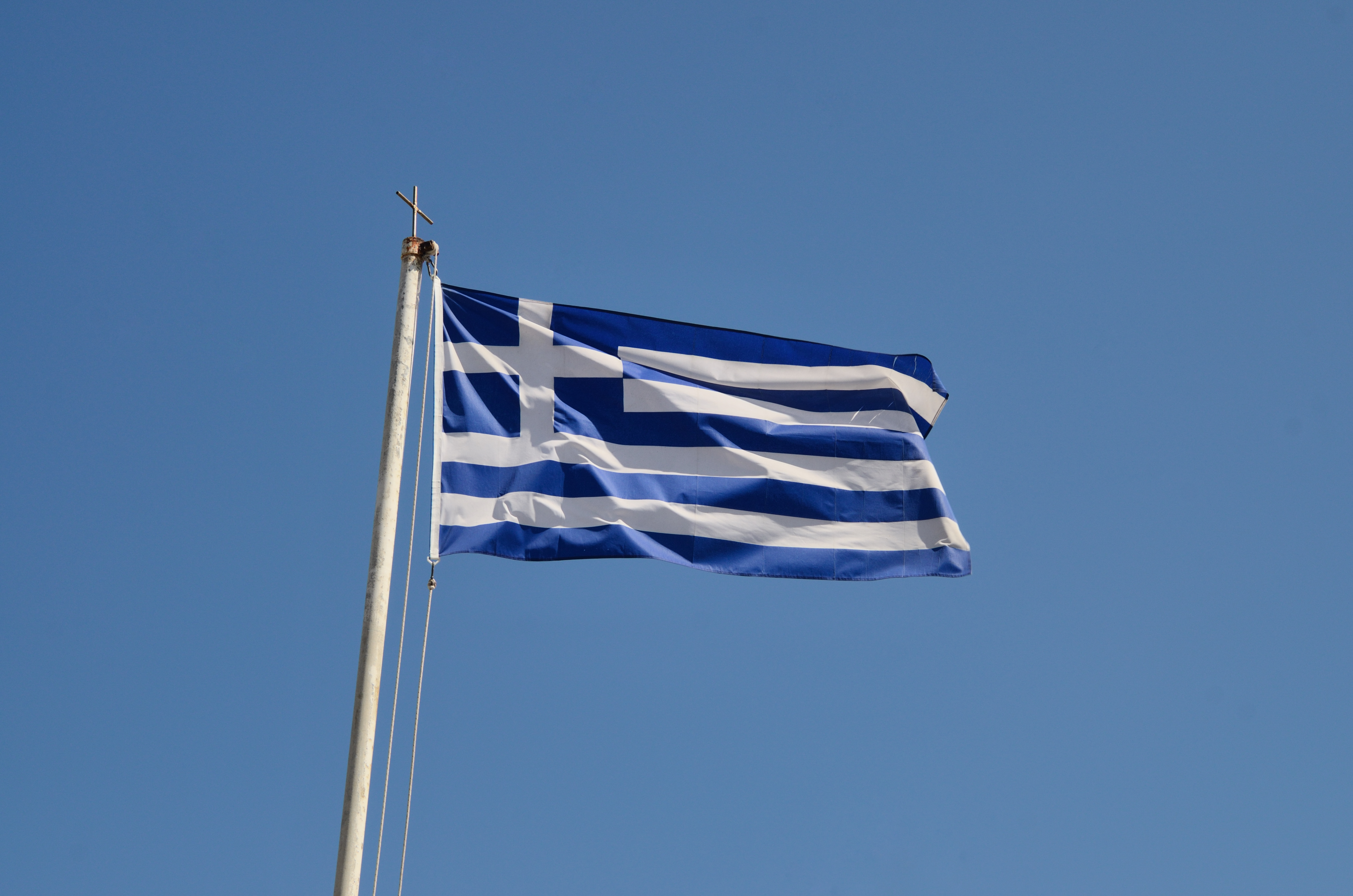 Greek flag